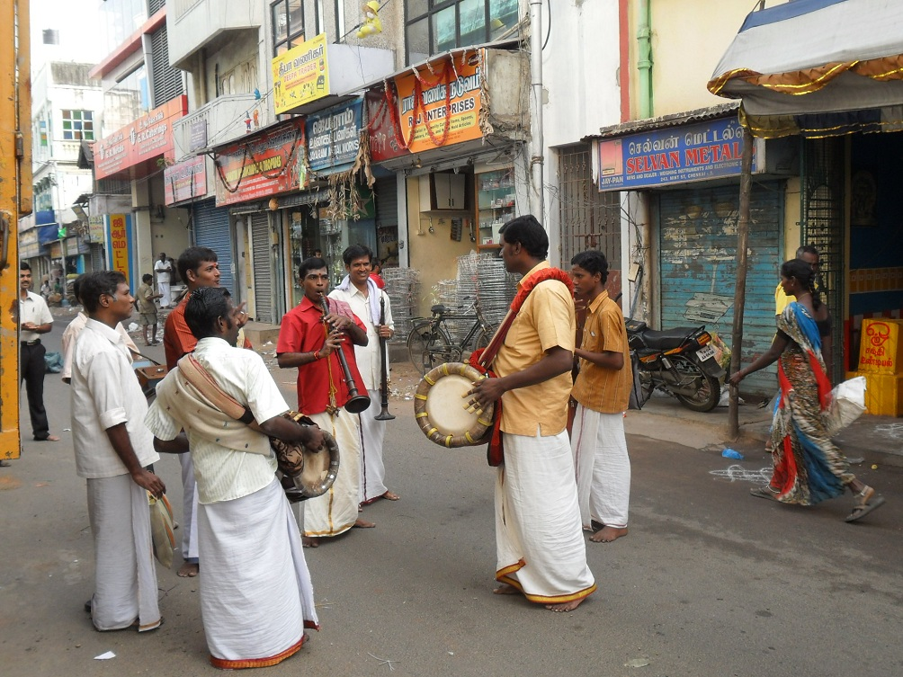 Indian men in Chennai